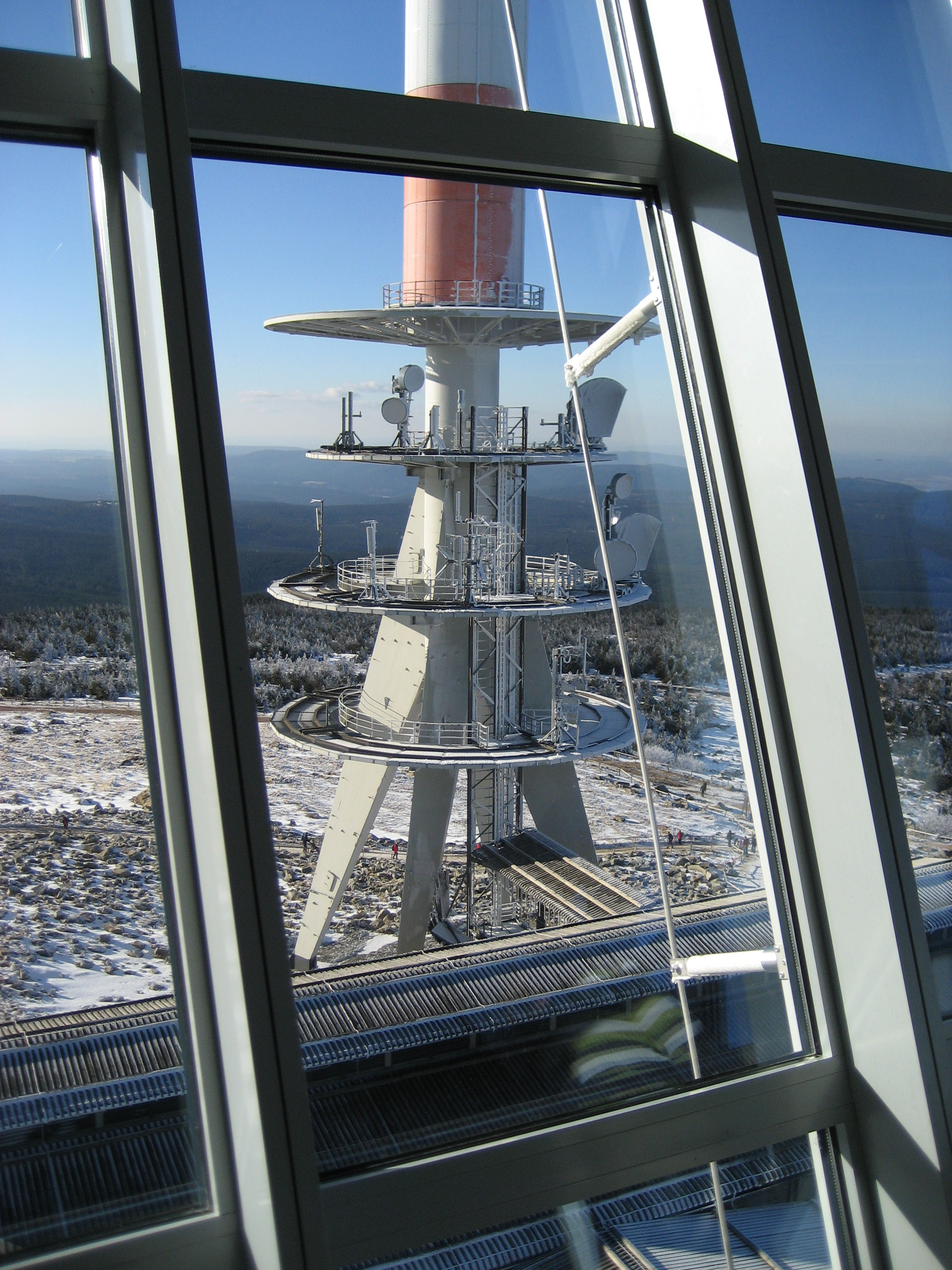 broadcasting station brocken, platform